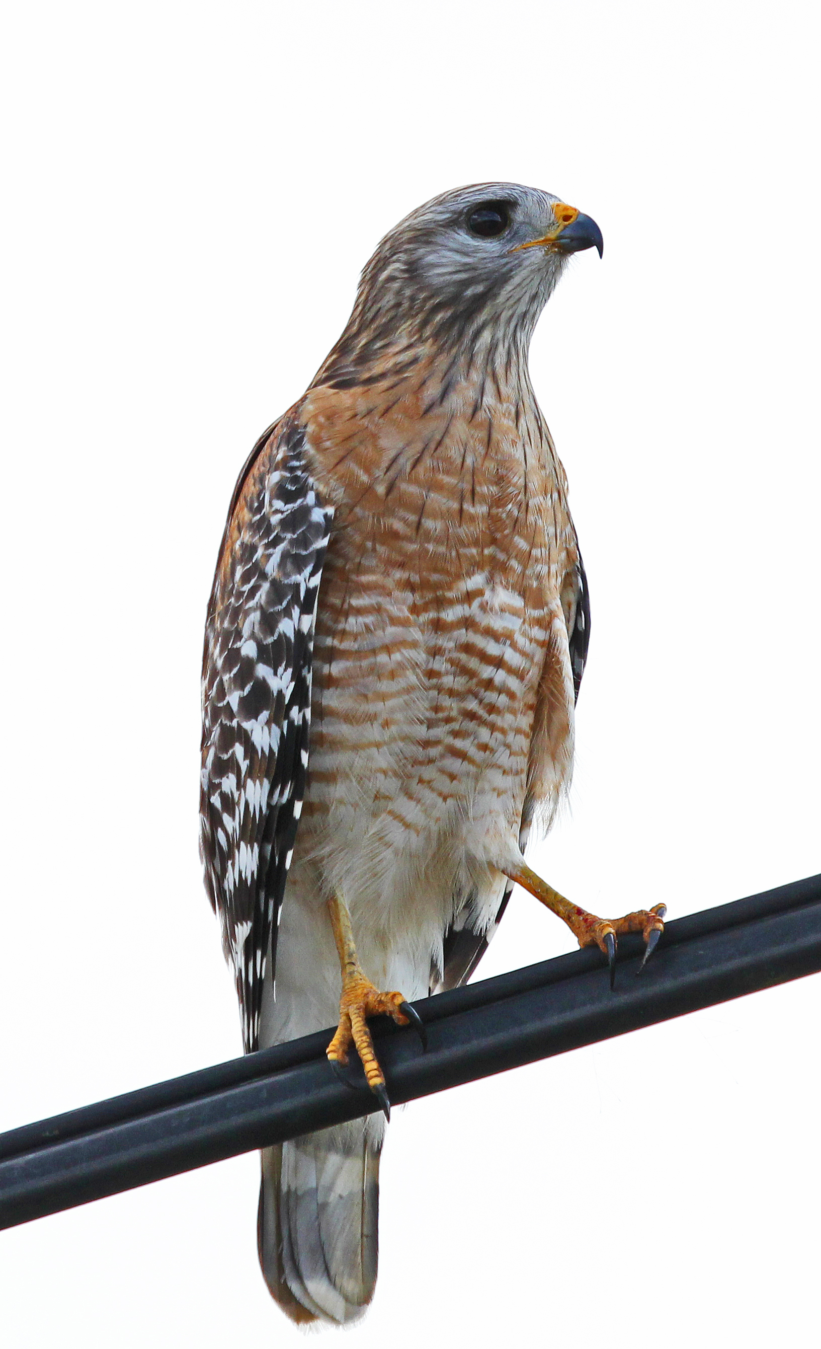 Red-shouldered Hawk - Buteo lineatus,Chekika Day-use Area, Everglades National Park, Homestead, Florida.